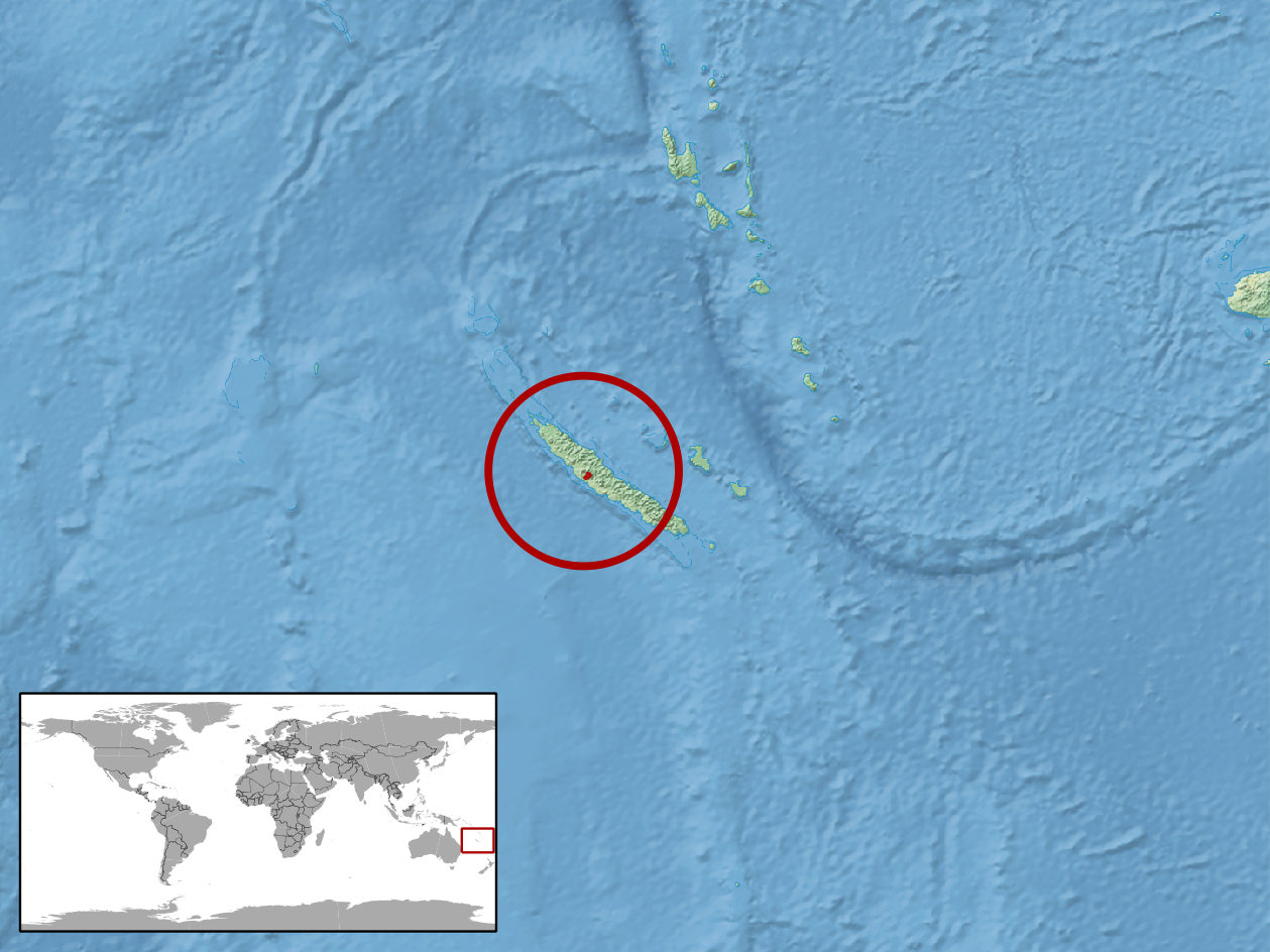 geographic distribution of Marmorosphax boulinda